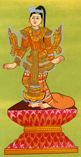 Shingwa nat (spirit), 36th in the official pantheon of Burmese nats